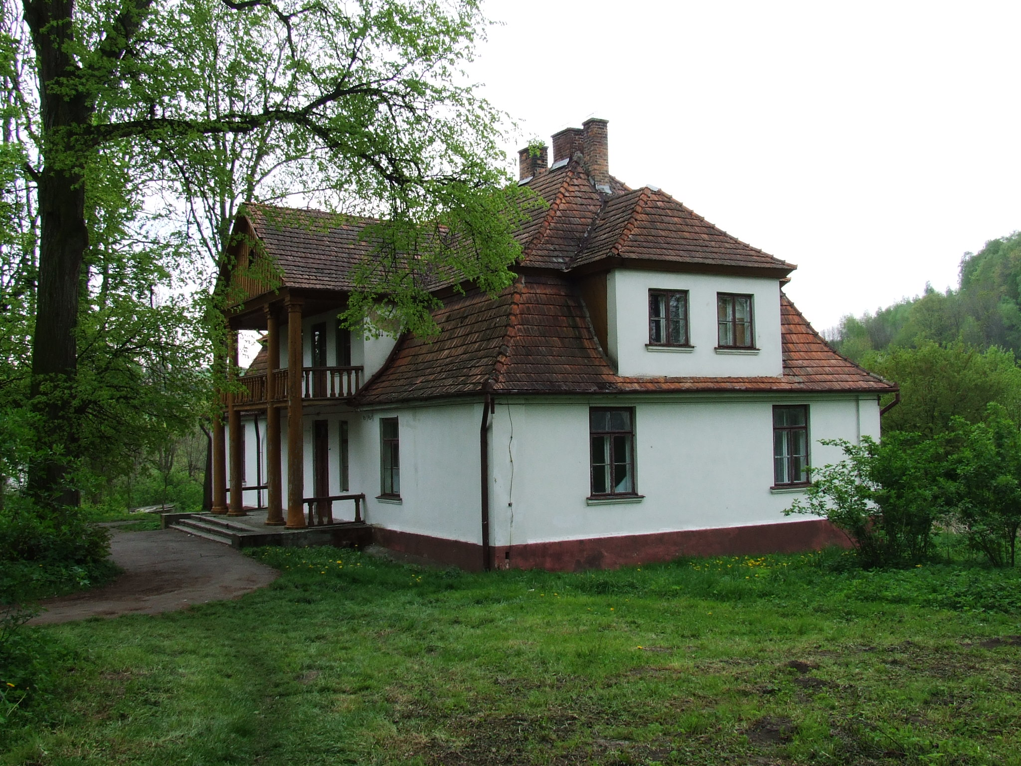 the residence in Janowiczki near Racławice